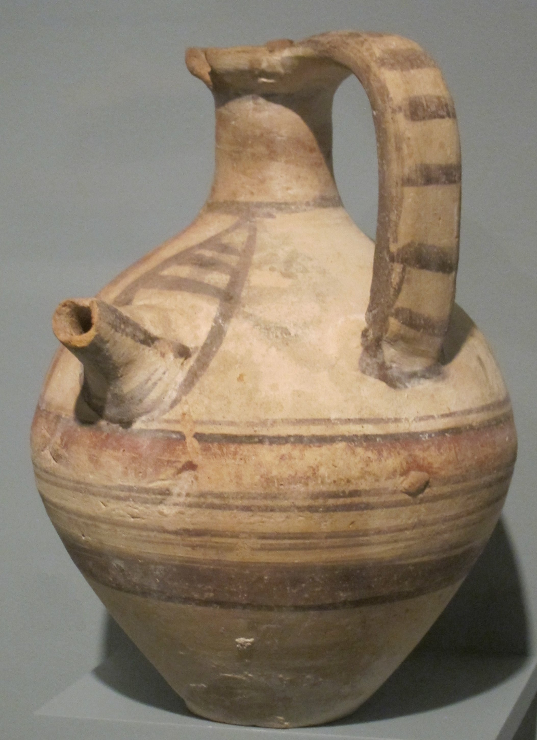 Terracotta Bichrome Spouted Jug, Cyprus, 650-600 BCE, Honolulu Academy of Arts